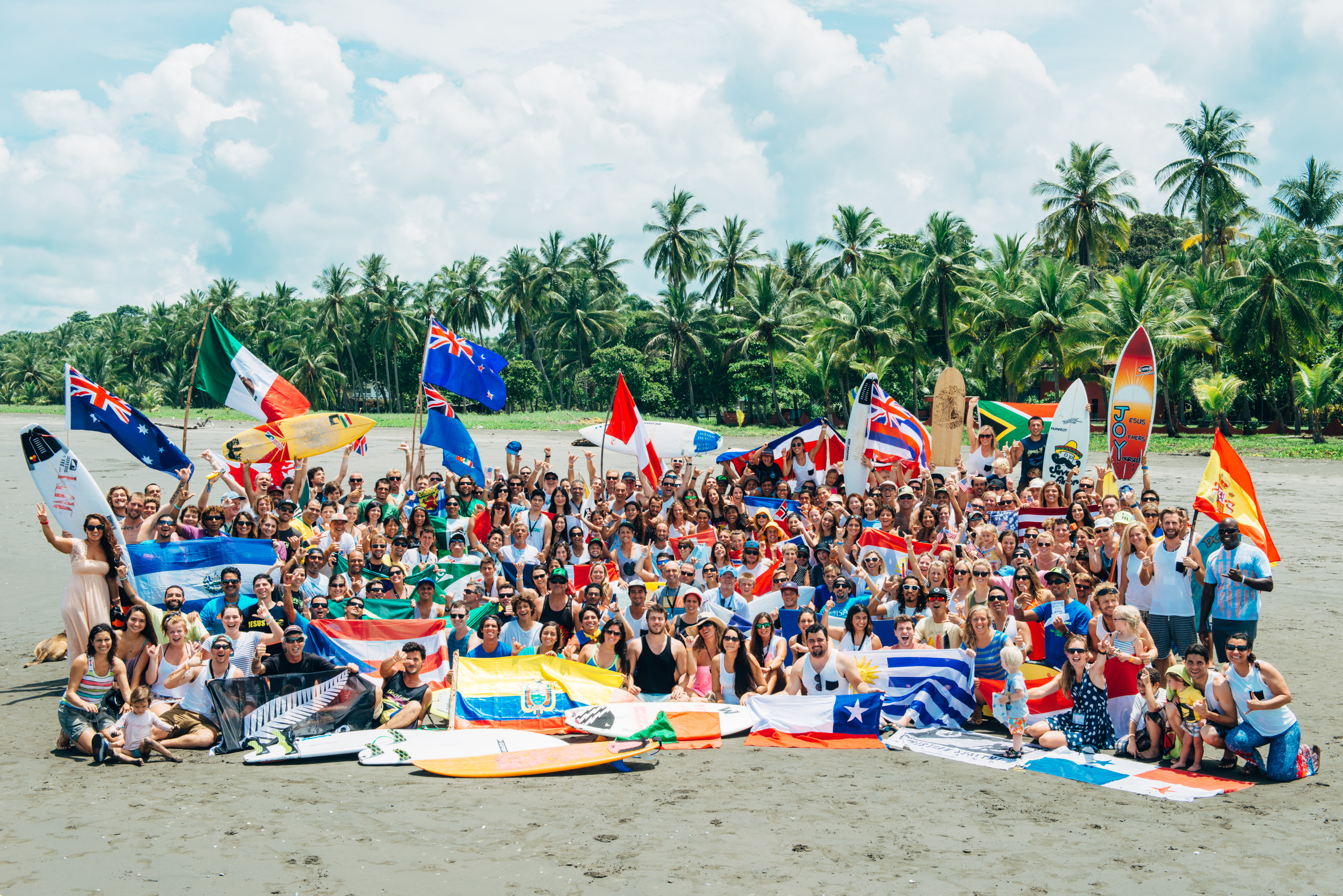 Christian Surfers International gathering in Costa Rica